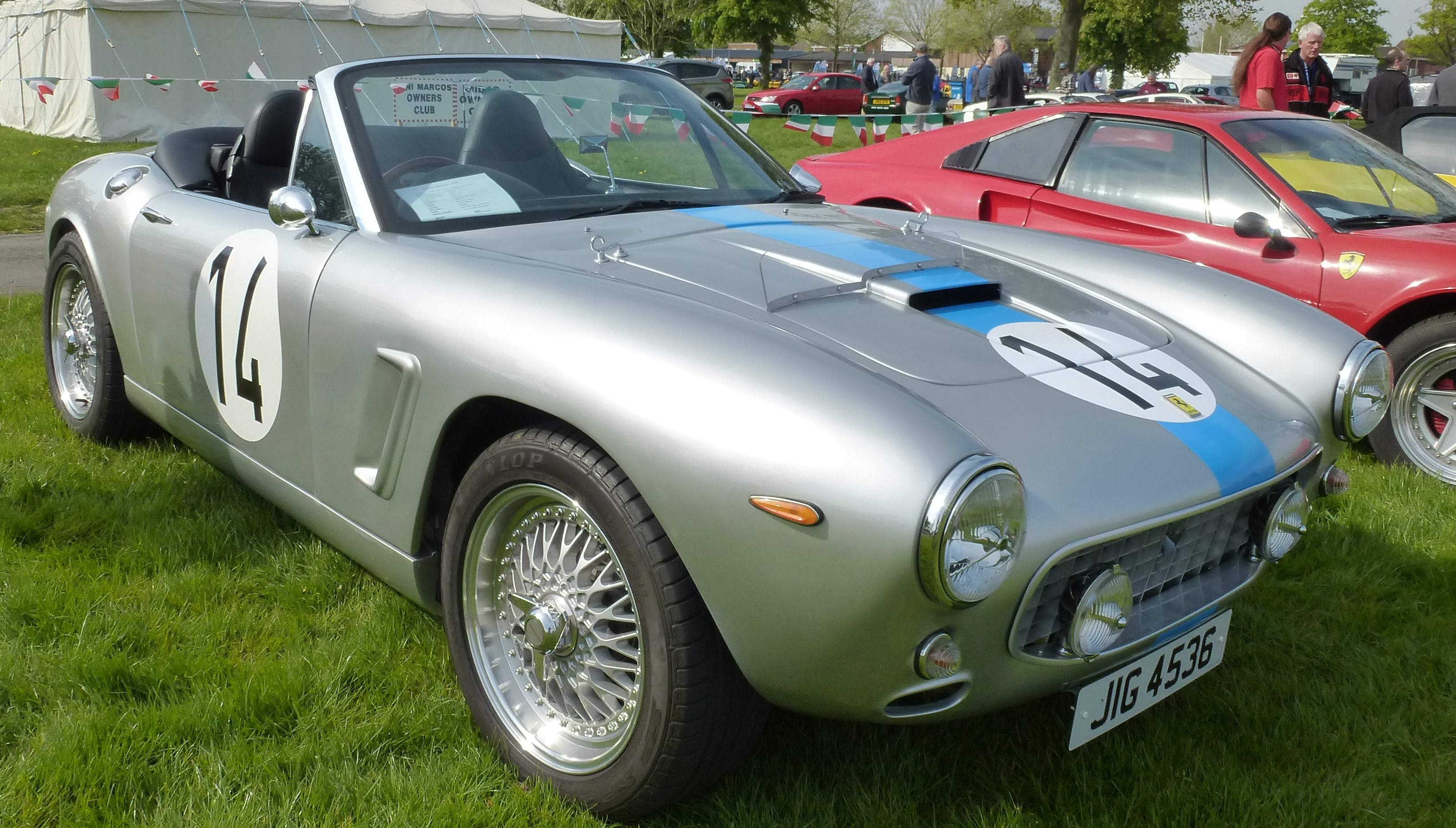 Tribute 250 SWB